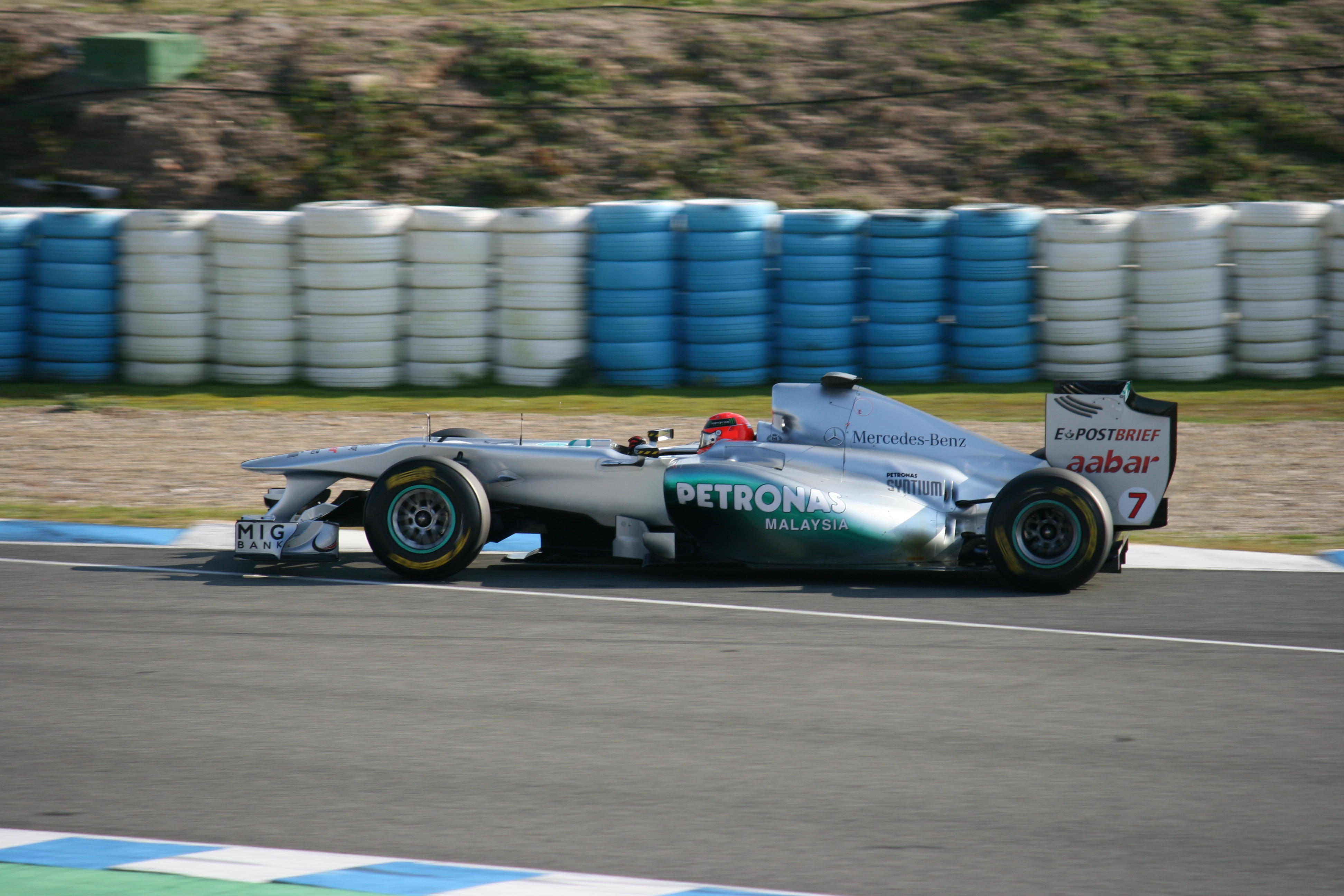 Michael Schumacher testing for Mercedes GP at Jerez.